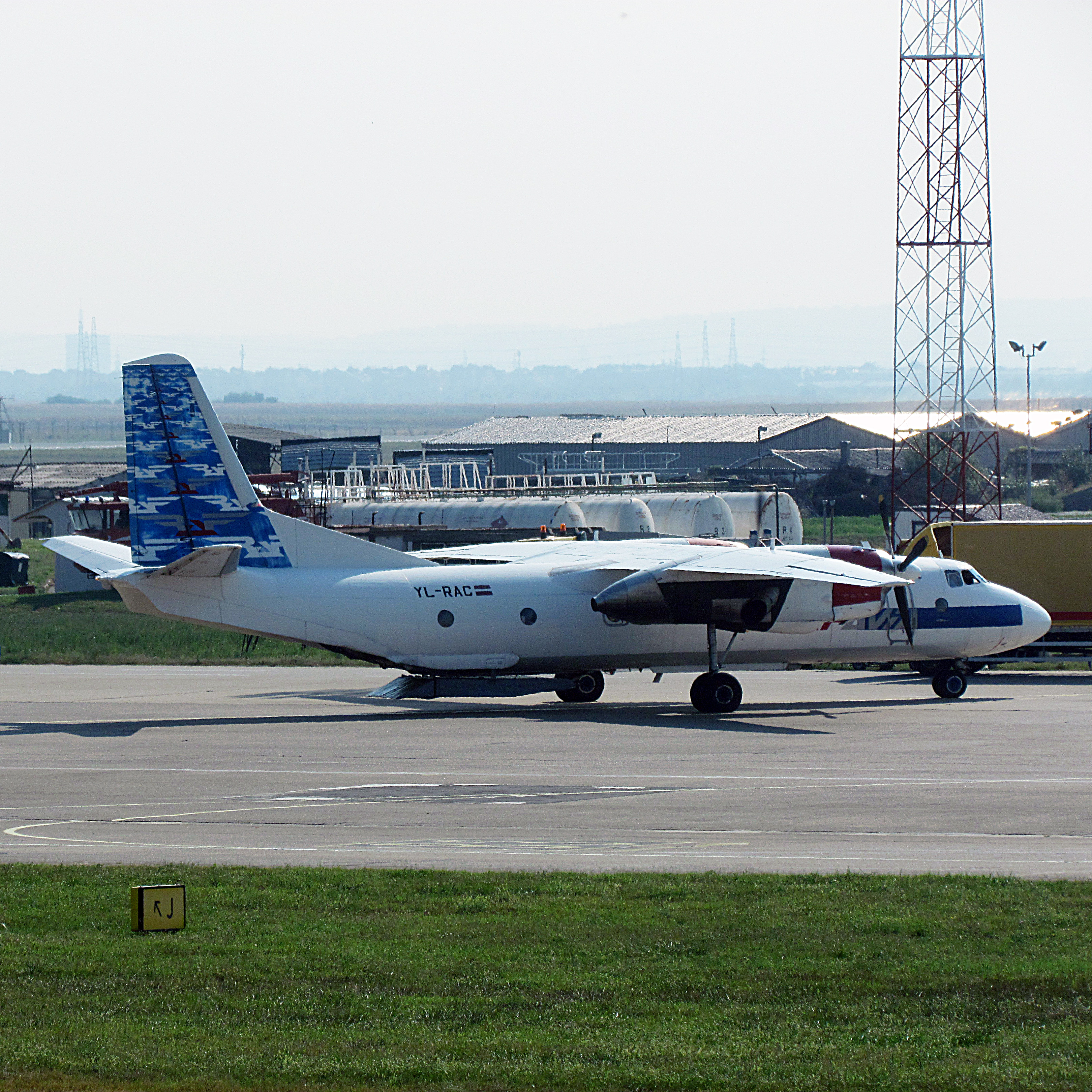 Antonov An-26 RAF-Avia in Belgrade airport